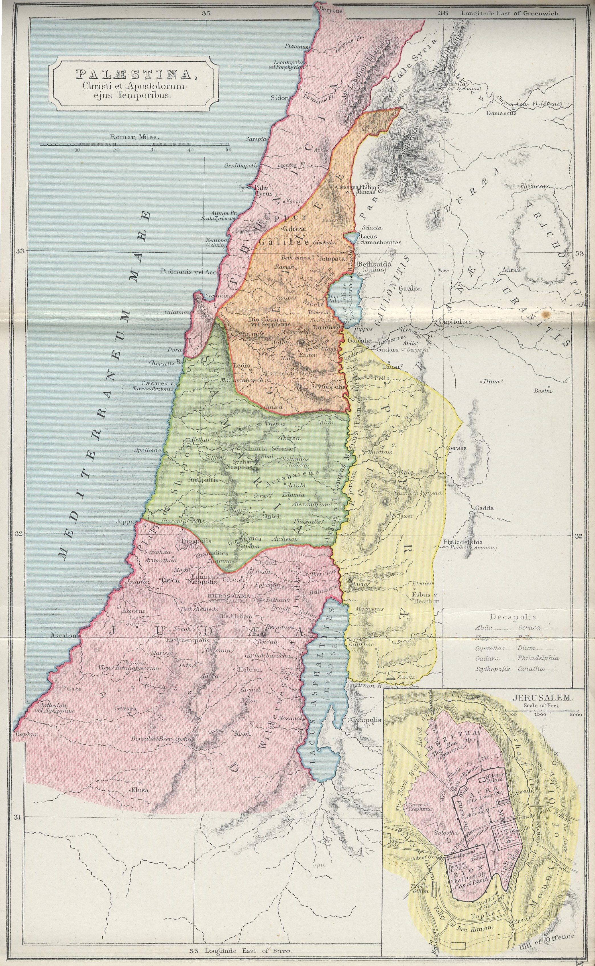 The Atlas of Ancient and Classical Geography by Samuel Butler